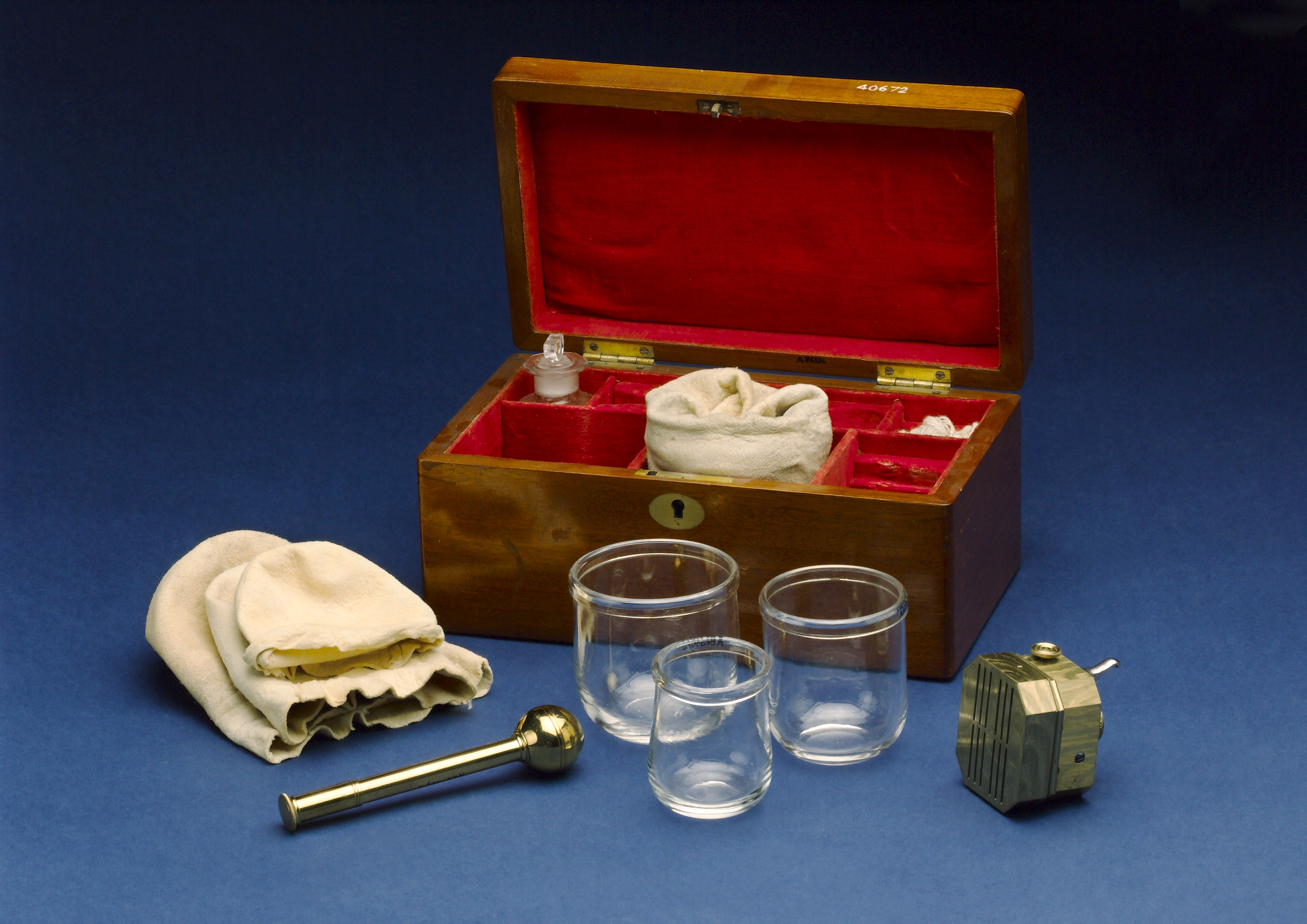 Cupping set, London, England, 1860-1875 Cupping was a method of bloodletting – a practice once carried out to treat a wide range of diseases and medical conditions. Warm glass cups were placed on the skin to draw blood believed to be harmful to health to the surface of the skin. In wet cupping, the blood was released from the body using a lancet or scarificator (a set of spring-operated lancets). The set was made by S Maw & Son, a surgical instrument maker based in London. Medical Photographic Library